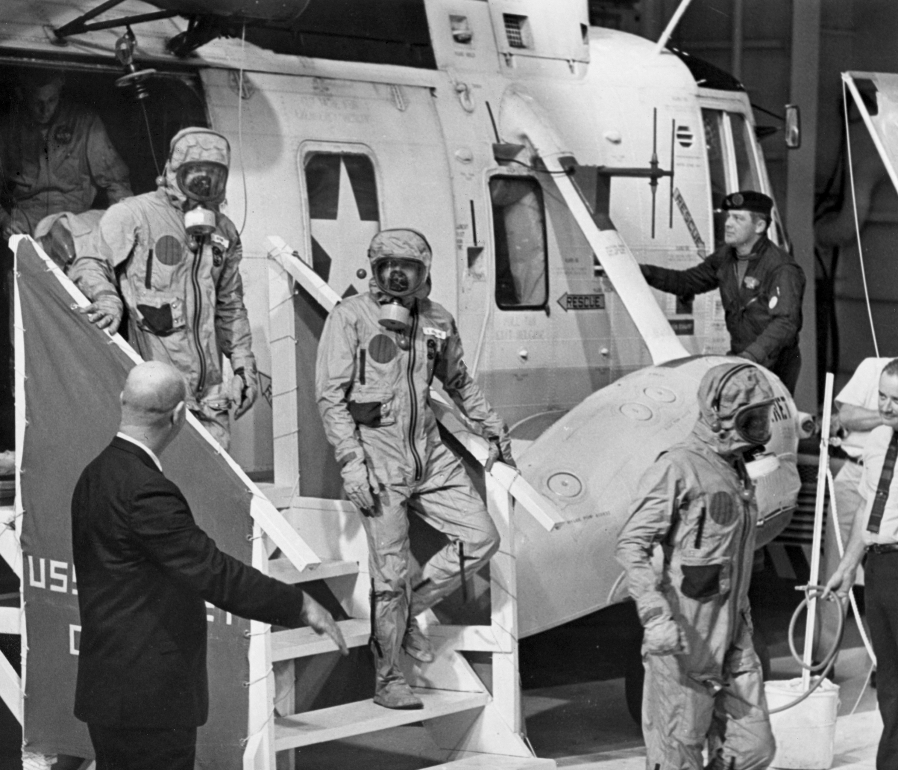 Apollo 11 astronauts in biohazard suits after recovery.